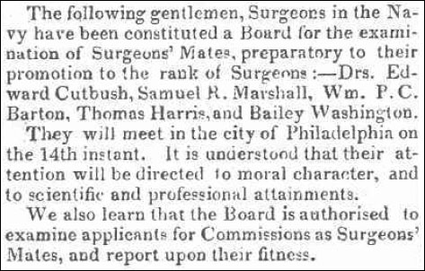 Dr. Edward Cutbush was a member of a board that examined surgeon's mates, "preparatory to their promotion to rank of surgeon" in the Navy.